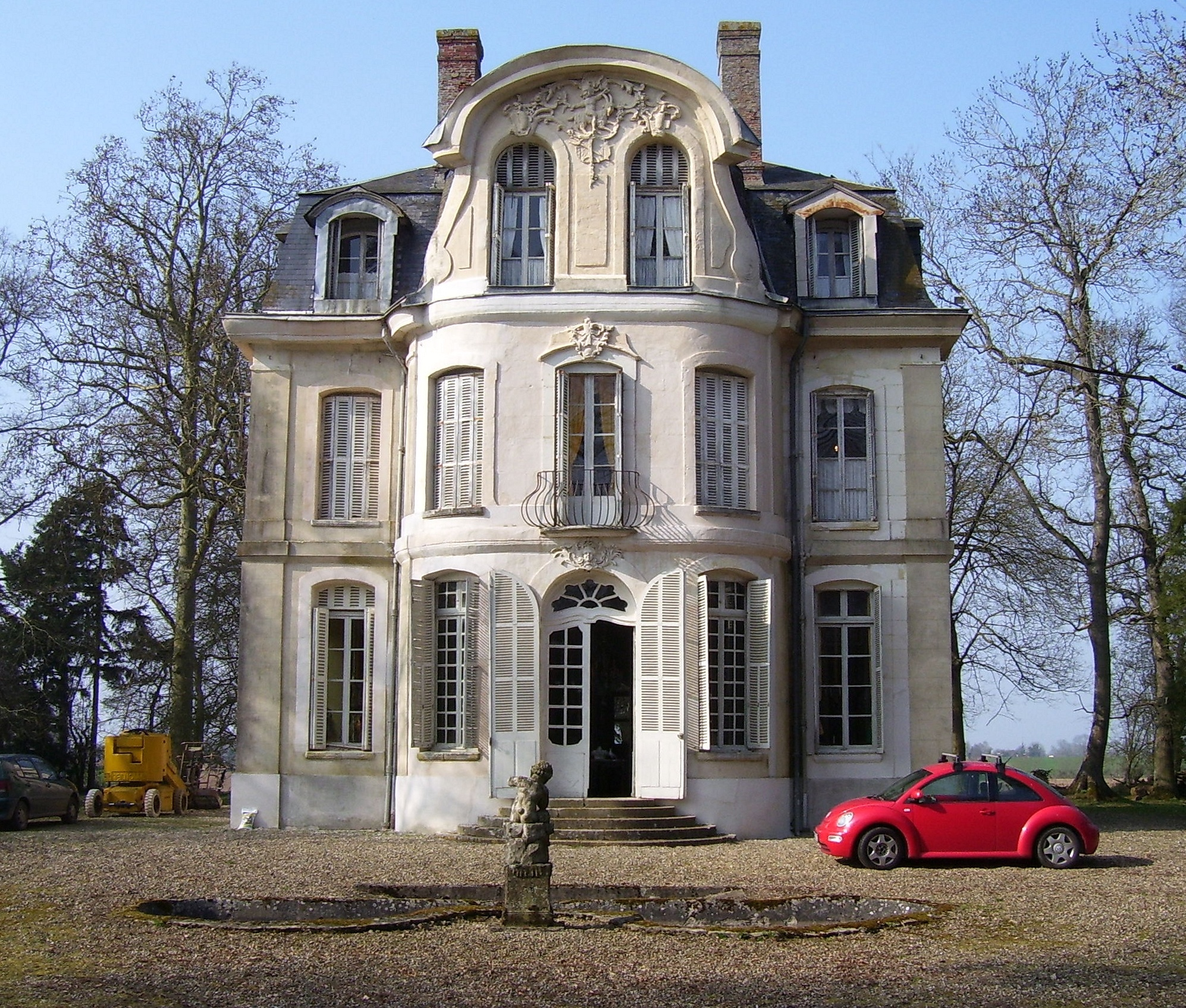 The baroque castle of Morsan is called Le Château Blanc by the locals, because it is built of white sandstone of the Loire valley. It was the domicile, hunting lodge and maison de plaisance (Lustschloss) of the barons and later marquises of Morsan. The design of the façade is attributed to the architect Ange-Jacques Gabriel. It is privately owned.